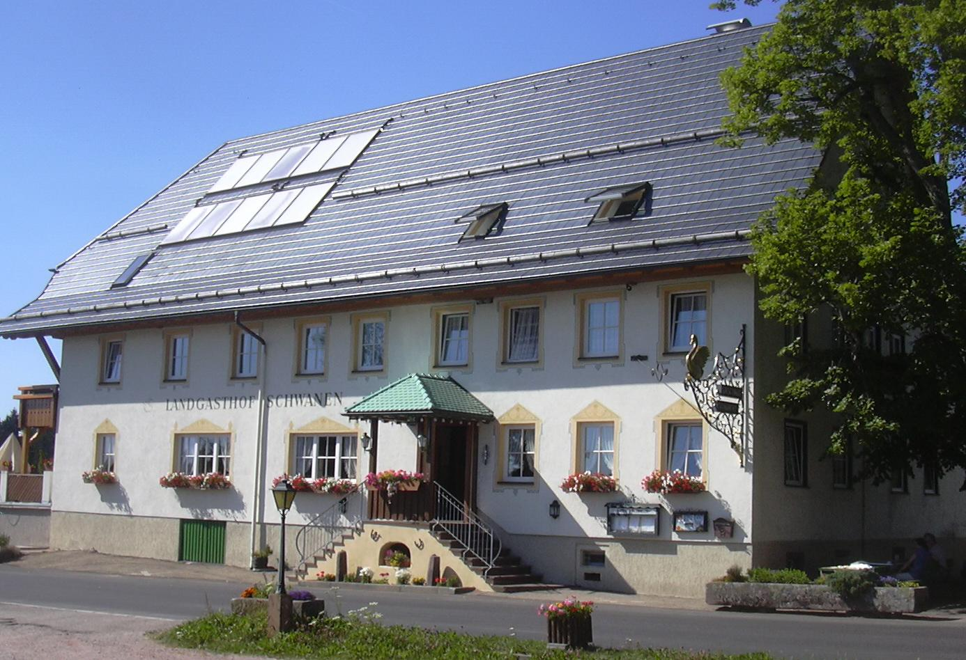 The "Schwanen" inn on Fohrenbühl height near Hornberg in the Black Forest, Germany